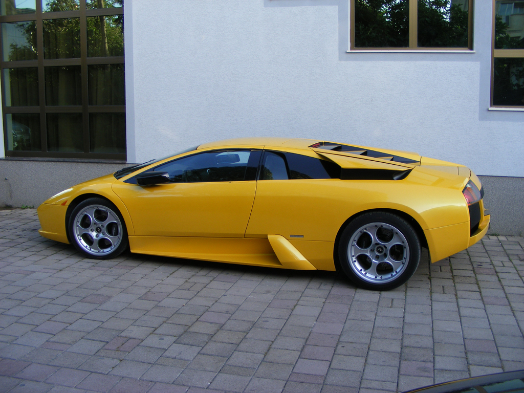 A yellow Lamborghini Murciélago parked in Ohrid, Republic of Macedonia.